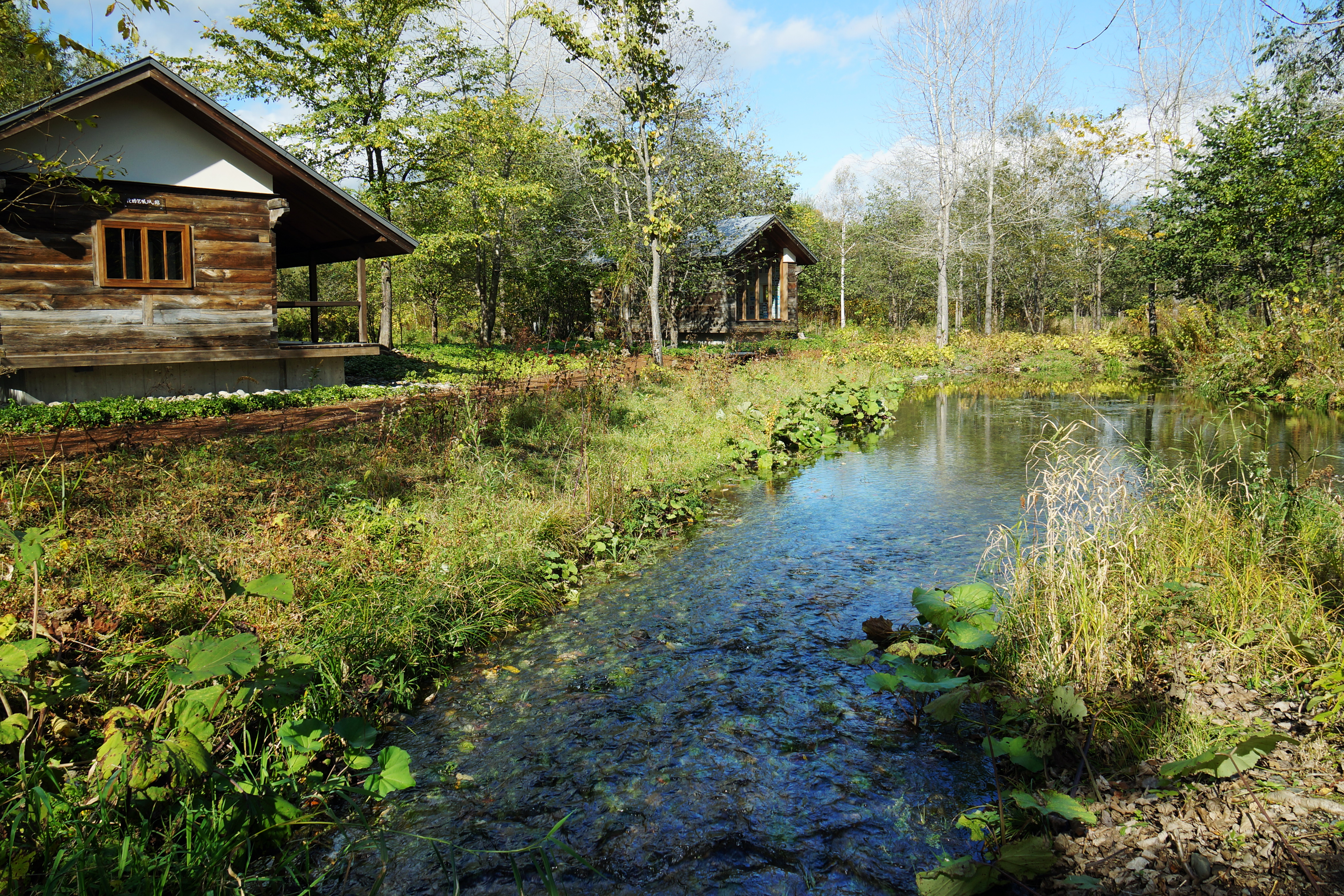 Rokka no Mori in Nakasatsunai, Hokkaido prefecture, Japan.